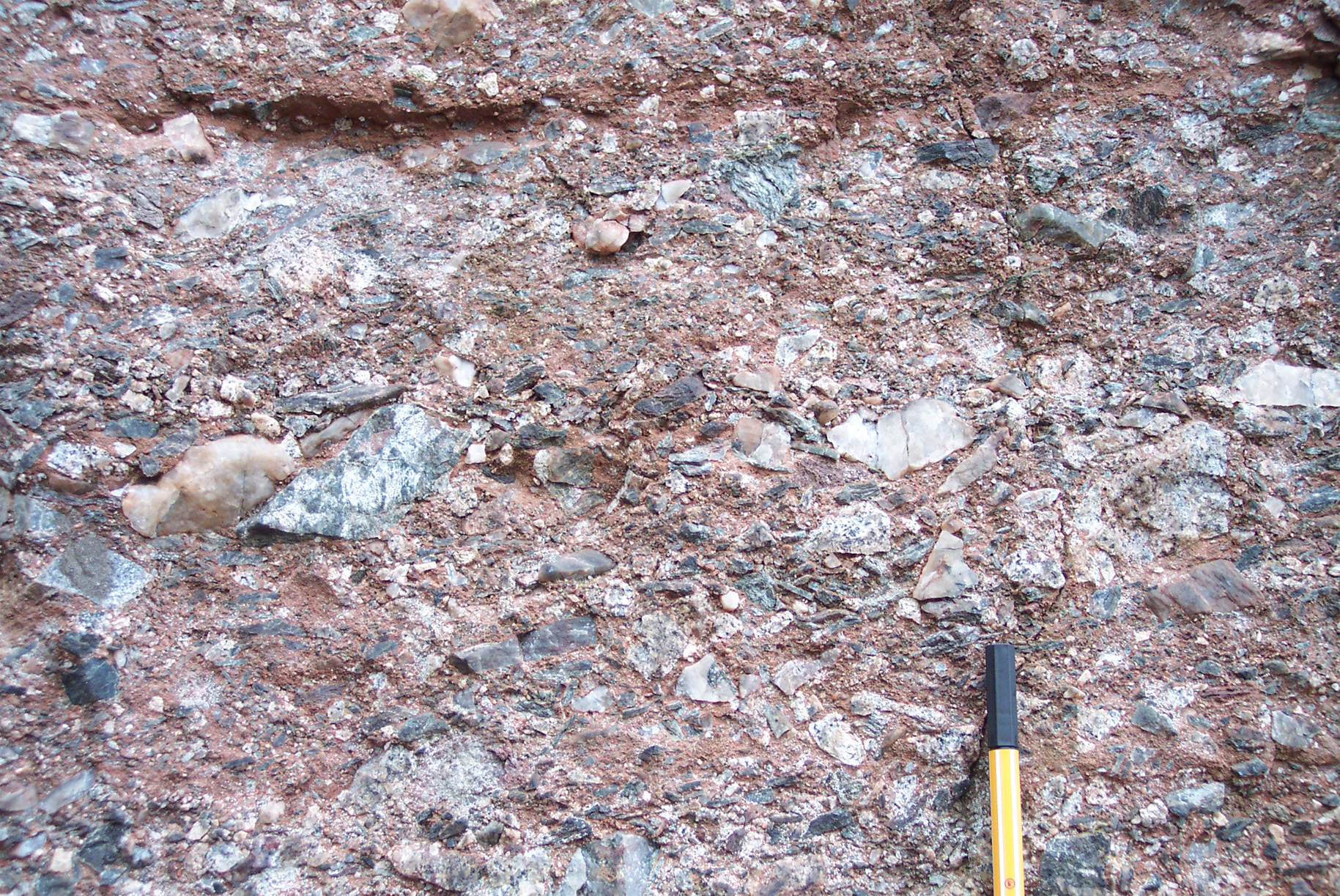 Fanglomerate (conglomeratic deposit of an alluvial fan) of the Eisenach Formation of the Lower or Middle Permian of Germany (Upper Rotliegend). Eisenach, below Wartburg Castle, main parking site at the western bend of the so-called “Wartburgschleife” (“Wartburg Castle circuit”).